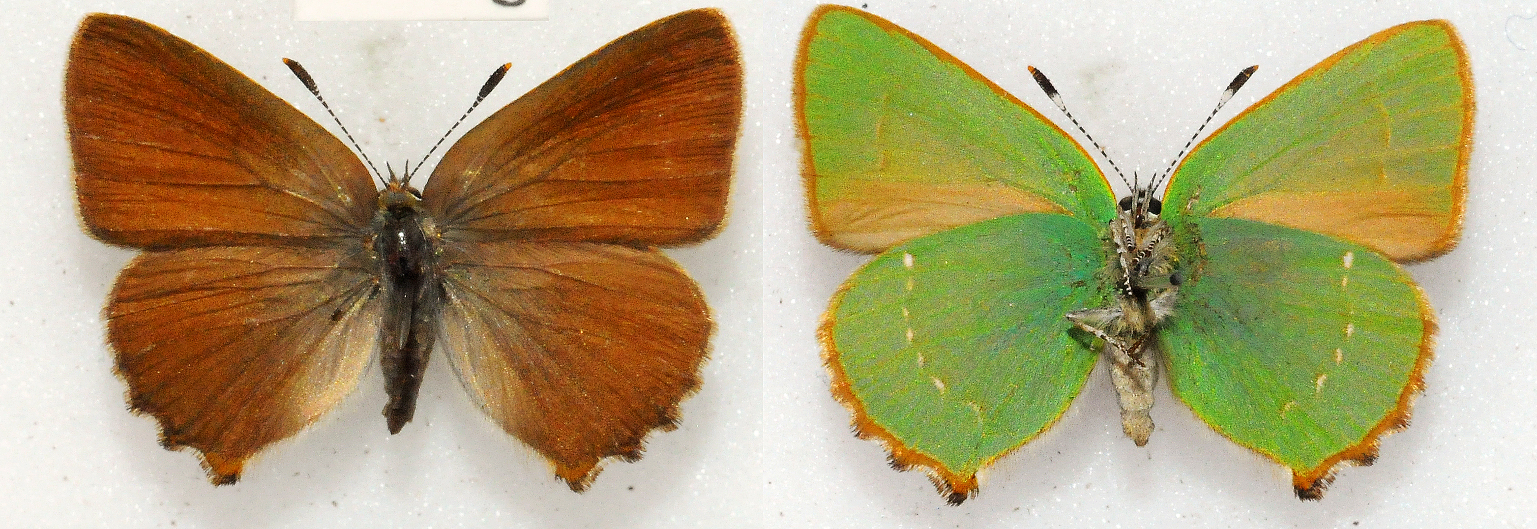 Callophrys rubi